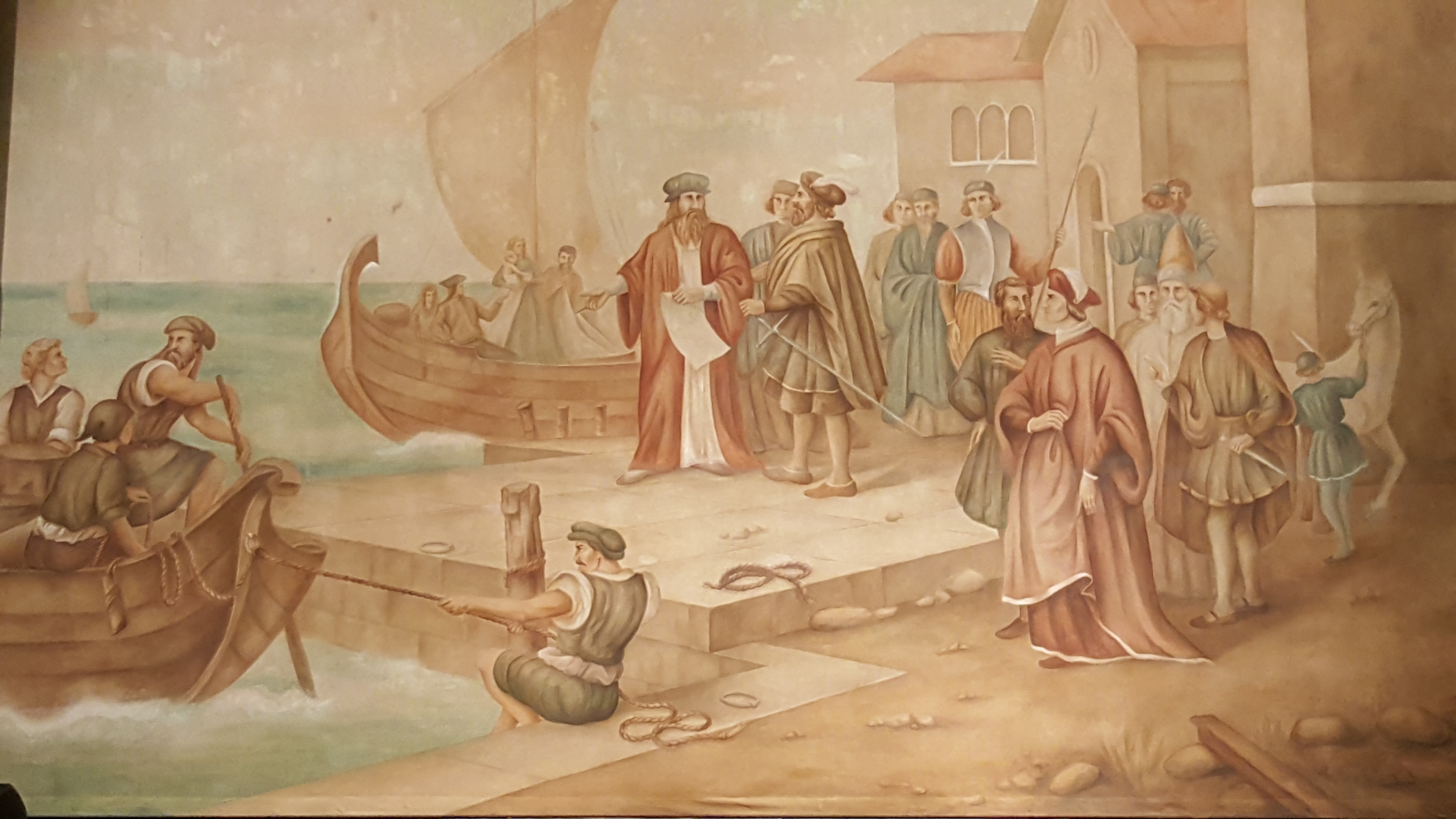 This is a photo of a monument which is part of cultural heritage of Italy.